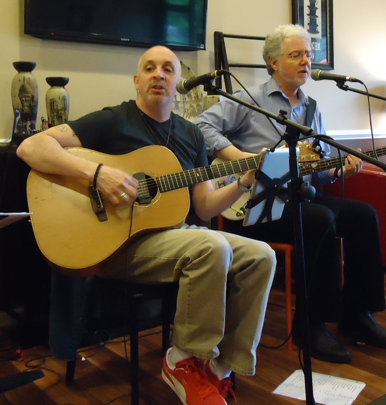 Two members of the acoustic trio known as MKS performing to an intimate audience at The Coffee House in Edison, New Jersey, on a Saturday evening. The group performs blues, soul music, jazz, and original tunes as well.